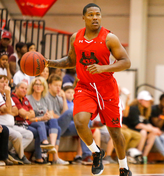 Photo by Chris Gillespie